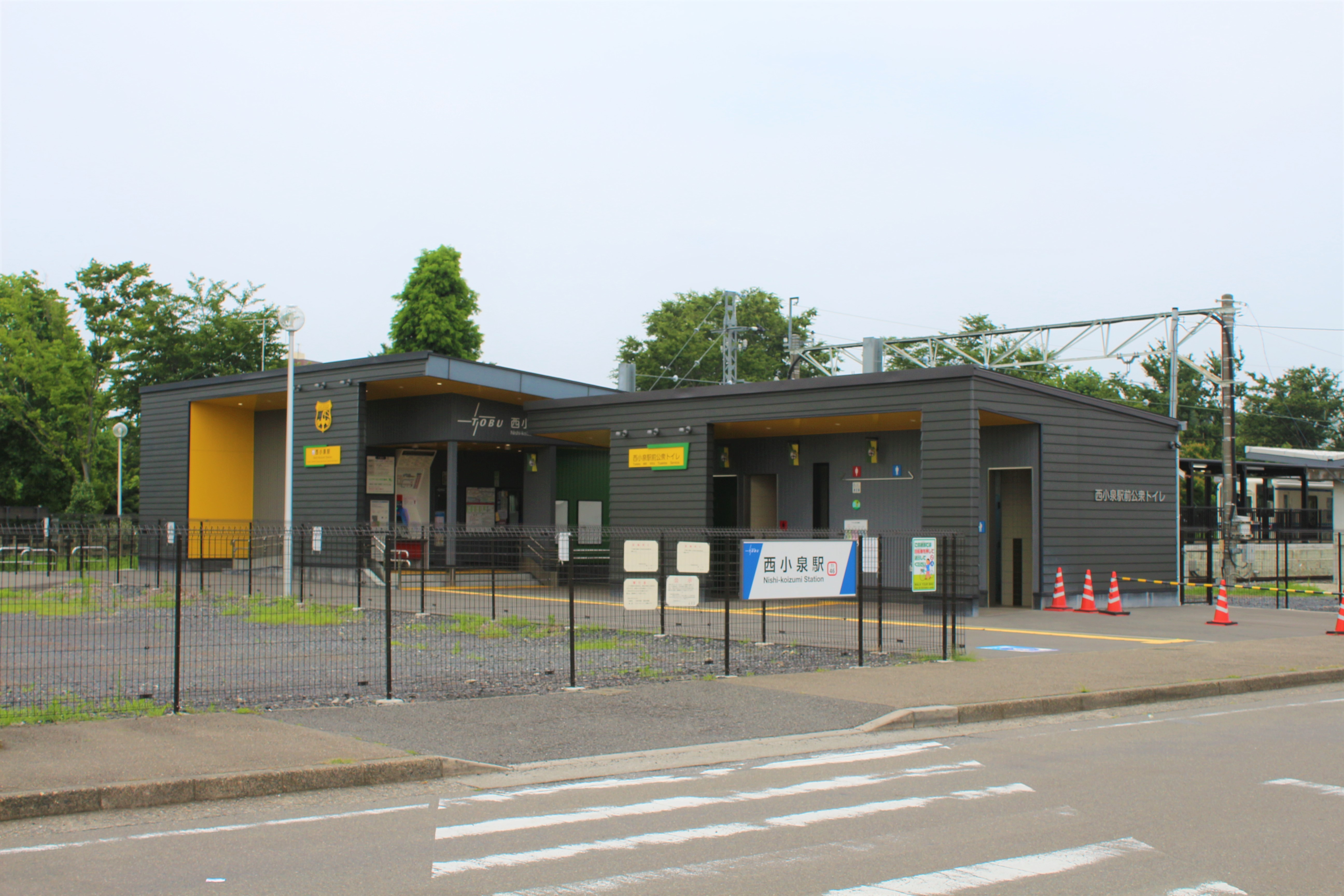 Nishi-Koizumi Station Canon EOS Kiss X7i